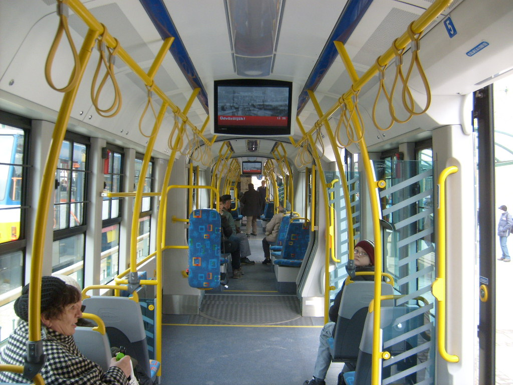 PESA 120Nb type tram, internal view